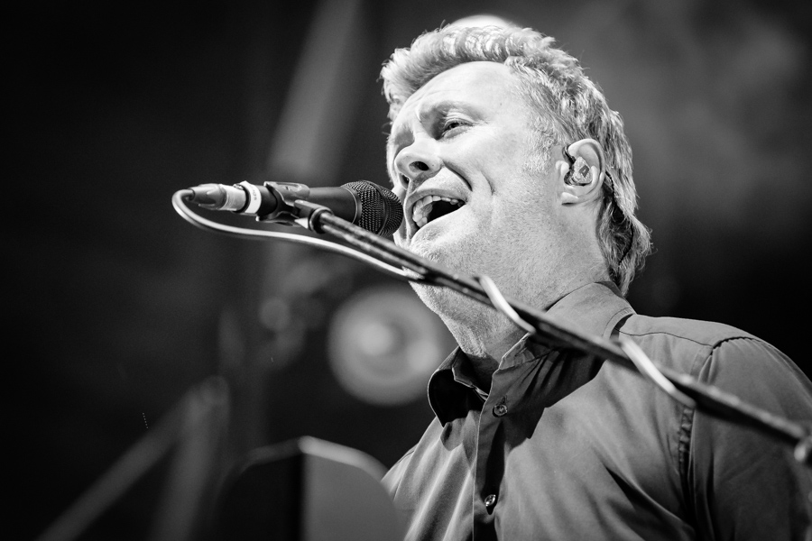 Magne Furuholmen with a-ha at Kirketorget. The concert was part of Kongsberg Jazzfestival and took place on 06. July 2018 in Kongsberg. Lineup:Morten Harket (vocal)Paul Waaktaar-Savoy (guitar and vocal)Magne Furuholmen (keyboard)Unidentified (drums)Unidentified (keyboard)Unidentified (cello)Unidentified (Unknown instrument)Unidentified (Unknown instrument)